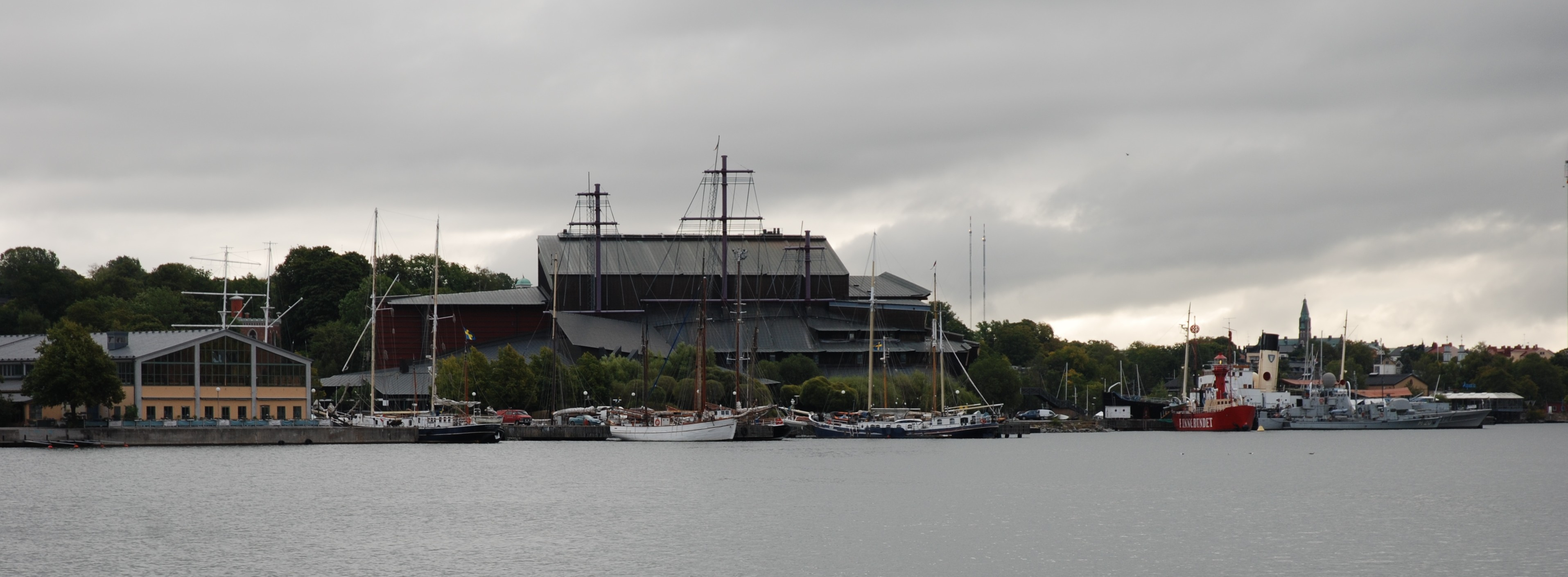 Galärvarvet, part of the earlier Stockholm Navy Shipyard, now a museum area and a public park. The dominant building is the Vasa Museum, and to the right museum ships the icebreaker S/S Sankt Erik, the lightship Finngrundet, the mine sweaper M20 and the torpedo boat T121 Spica, are visible.